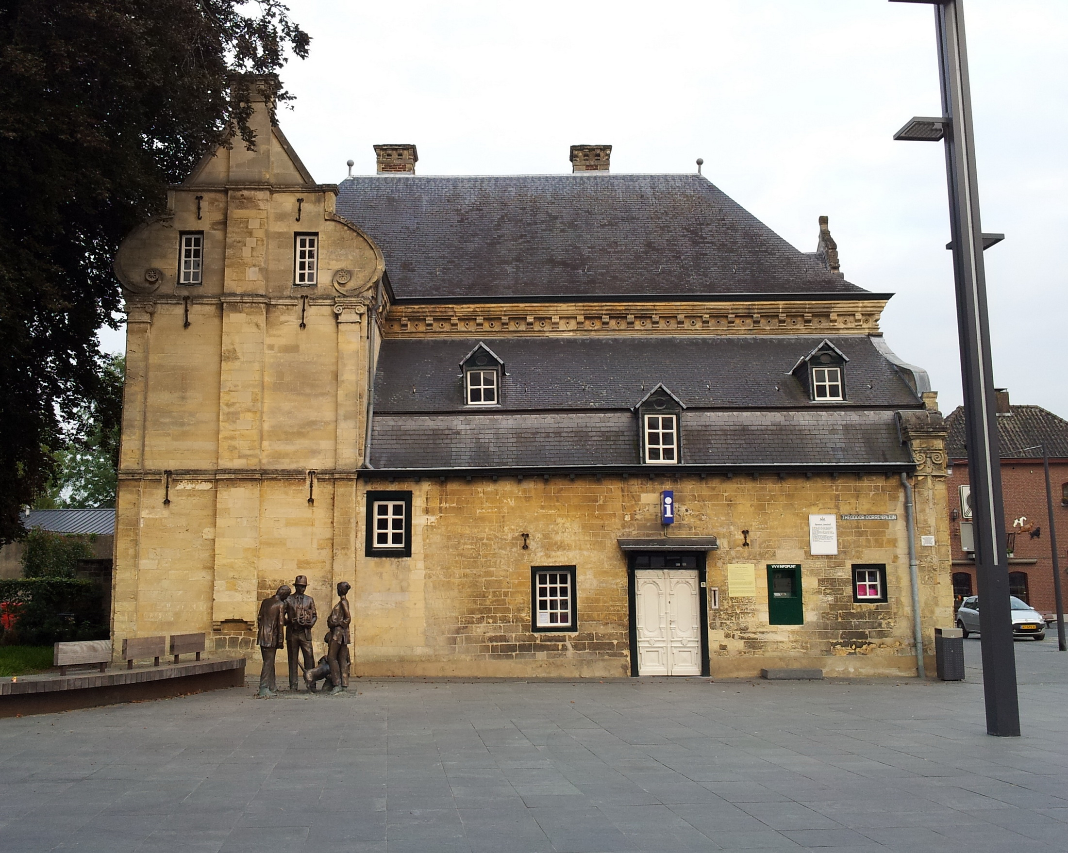 Valkenburg, Limburg, the Netherlands. View of the "Spaans Leenhof" (Spanish administration and court building) on Theodoor Dorrenplein.